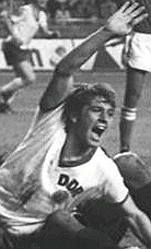 Title: Fußball-WM, DDR - Chile 1:1 Factual corrections and alternative descriptions are encouraged separately from the original description. Additionally errors can be reported at this page to inform the Bundesarchiv. Original historic description: ADN-ZB-Mittelstädt-19.6.74-Westberlin: X. Fußball-Weltmeisterschaft 1. Finalrunde, Gruppe 1: DDR - Chile 1:1 am 18.6.74 Nach dem 1:0 für die DDR-Mannschaft in der 56. Spielminute jubeln die Spieler (v.l.) Joachim Streich, Torschütze Martin Hoffmann und Harald Irmscher. Am Boden hinter Hoffmann, Torwart Leopoldo Vallejos. Nr.3 Alberto Quintano (beide Chile).